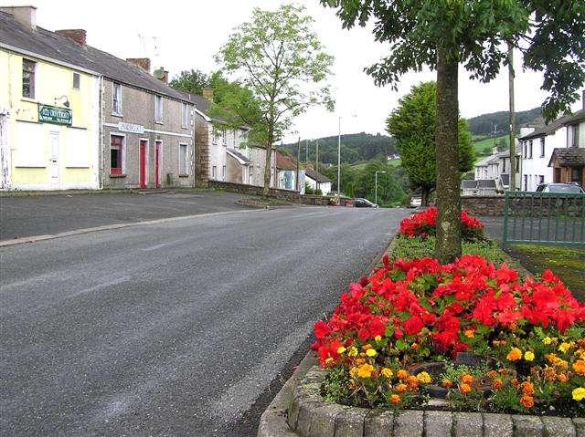 Cappagh, County Tyrone. A pretty floral display along the main street.